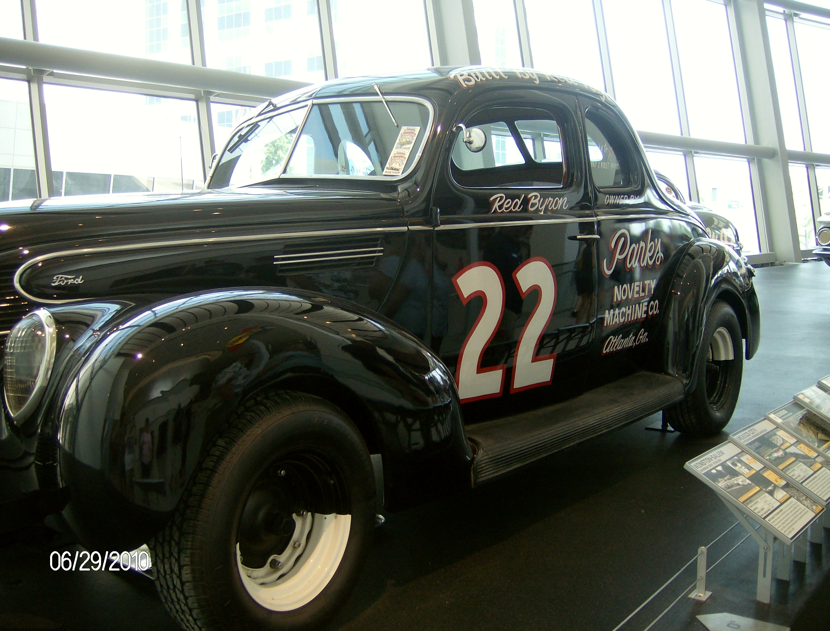 Red Byrons's car being displayed in the NASCAR Hall of Fame.